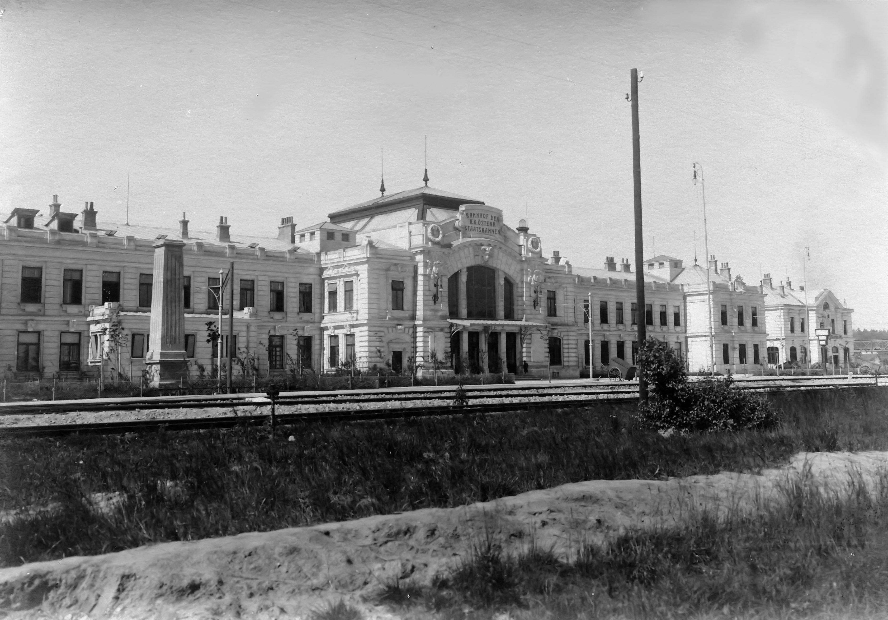 The old railway station of Gmünd on the Franz-Josefs-Bahn. Since after WW I this part of the town belongs to České Velenice in the Czech Republic.